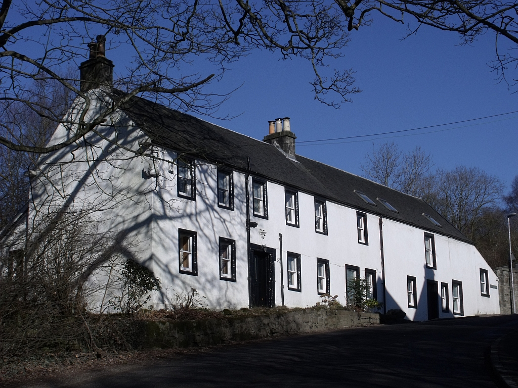 Old corn mill, Kilsyth The Garrel mill on the Tak-Ma-Doon Road. This building is spread across two squares, the nearest part being in the same as the photographer.